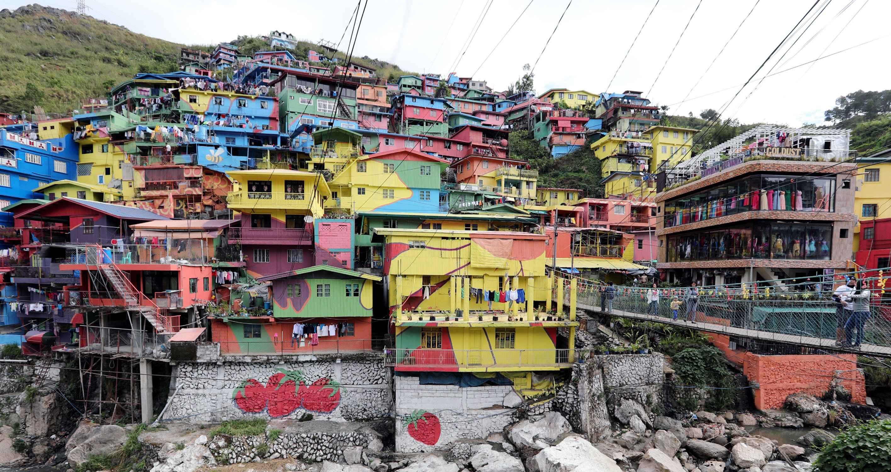 When you happen to visit Baguio City these days, you surely won't miss the colorful houses in Sitios Stonehill, Botiwtiw and Sadjap or StoBoSa in Balili, La Trinidad if you are planning to visit the vegetable trading post and do some strawberry picking in La Trinidad, Benguet. (PNA photo by Joey O. Razon)